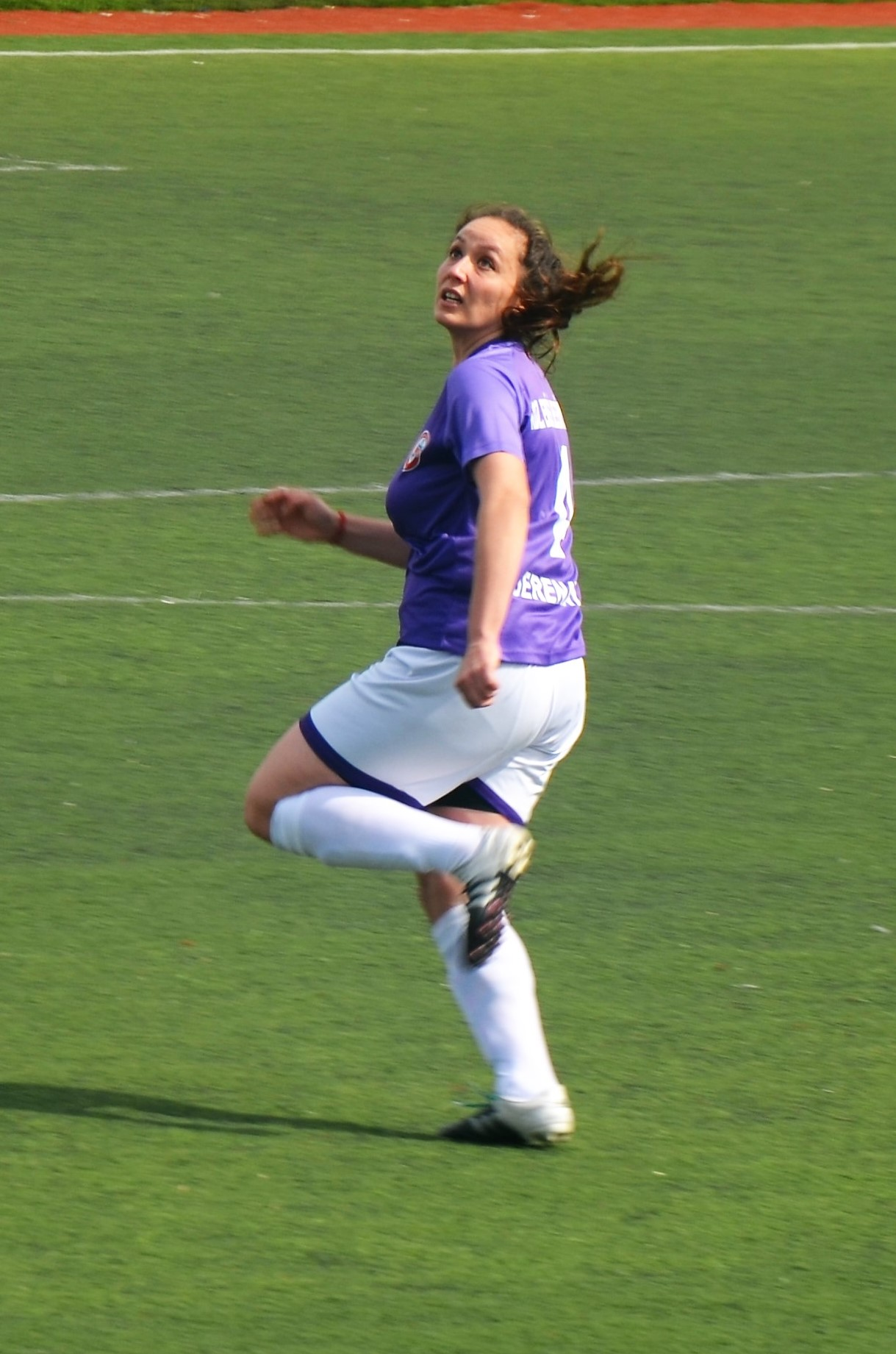 Burçin Erseçal of Kdz. Ereğlispor in the 2018-19 Turkish Women's First Football League